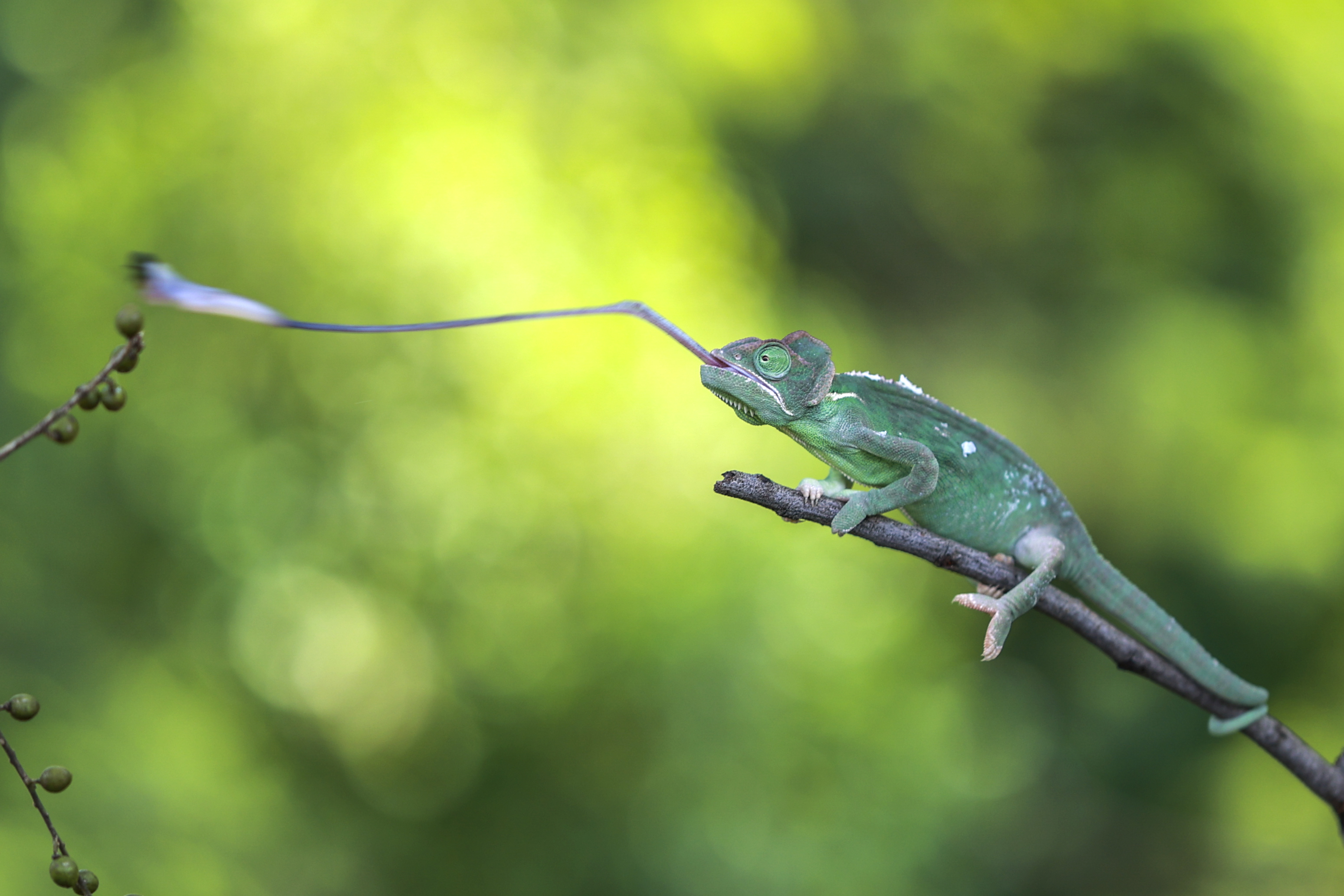 A chameleon start to catch its prey by extending his tounge